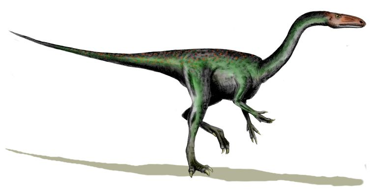 Segisaurus halli, a coelophysoid theropod from the Early Jurassic of Arizona, pencil drawing, digital coloring, skull based on Coelophysis